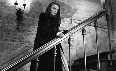 Movie still